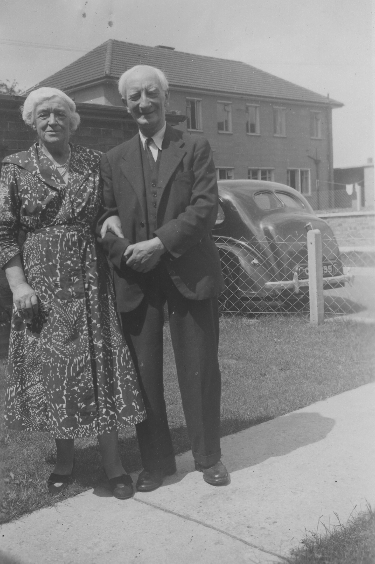 IMAGELIBRARY/987 Persistent URL: William Henry Beveridge (1879-1963) was a student at the London School of Economics in 1903-04 and its Director from 1919-37. His most famous contribution to society is the Beveridge Report (officially, the Social Insurance and Allied Services Report) of 1942, the basis of the 1945-51 Labour Government's legislation program for social reform.